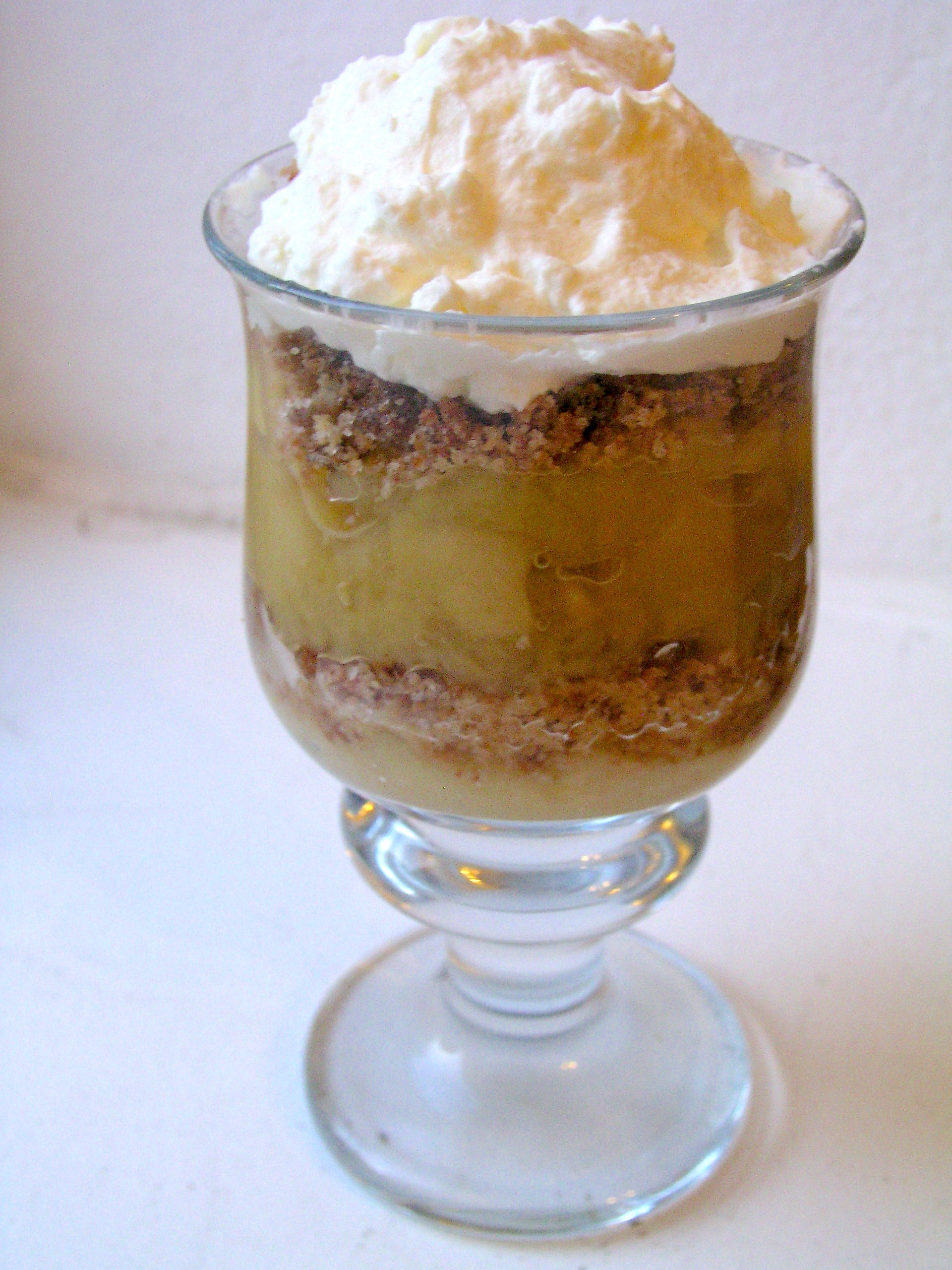 Traditional danish dessert (dansk æblekage) with layers of apple and butter-browned bread crumbs and whipped cream